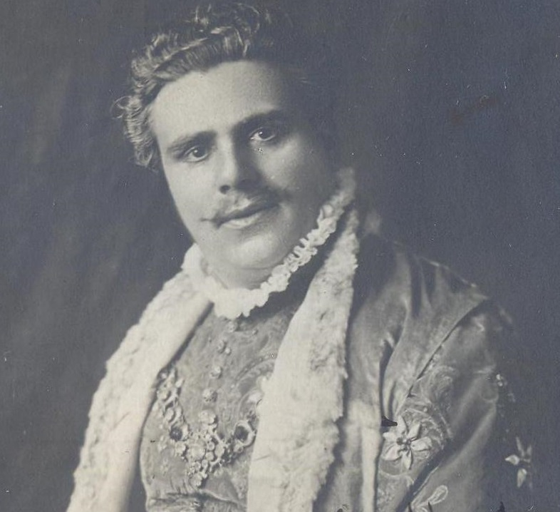 Portrait of of the Italian opera singer Aristodemo Giorgini (1879–1937) as the Duke of Mantua in Rigoletto